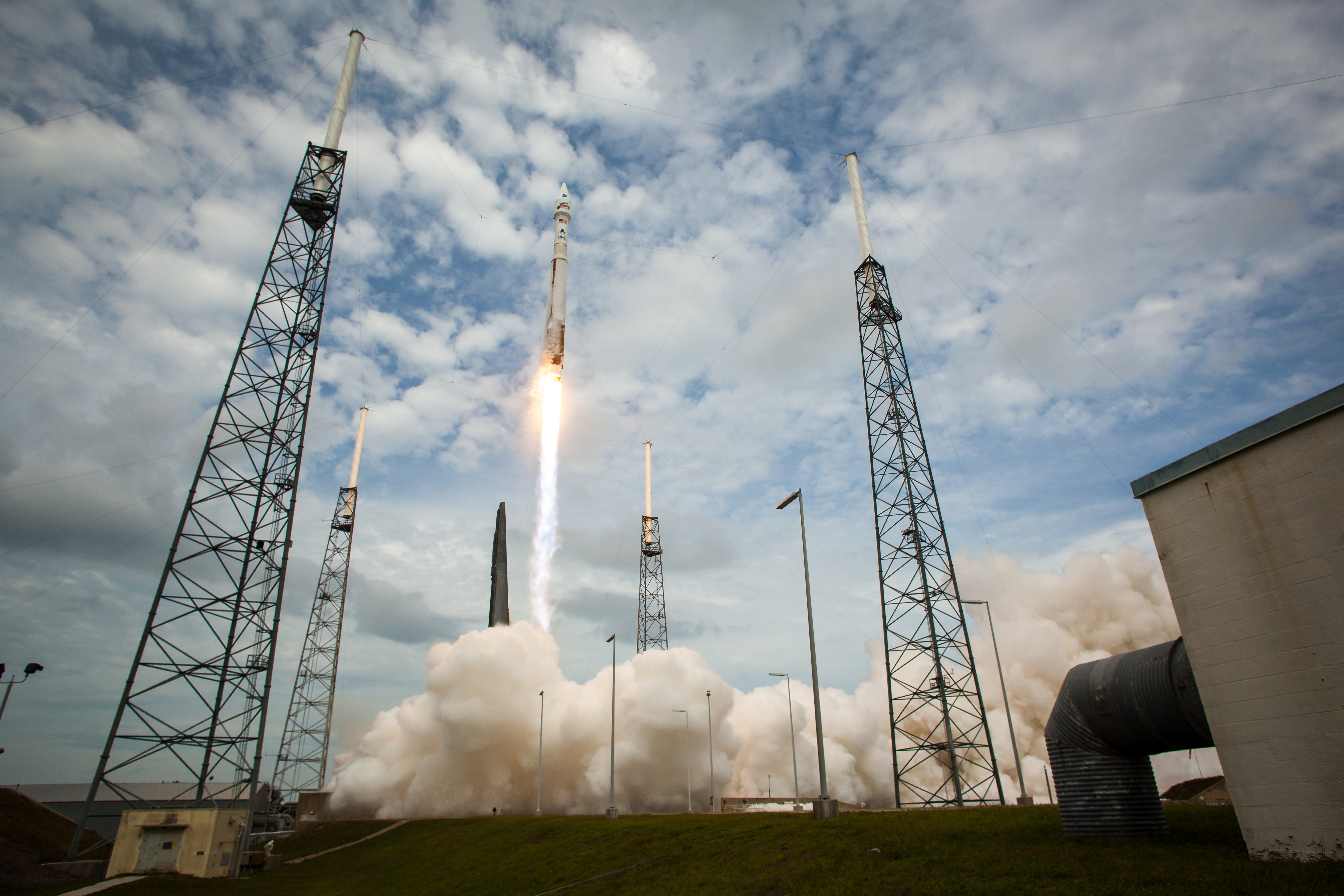 The United Launch Alliance Atlas V rocket with NASA’s Mars Atmosphere and Volatile EvolutioN (MAVEN) spacecraft launches from the Cape Canaveral Air Force Station Space Launch Complex 41, Monday, Nov. 18, 2013, Cape Canaveral, Florida. NASA’s Mars-bound spacecraft, the Mars Atmosphere and Volatile EvolutioN, or MAVEN, is the first spacecraft devoted to exploring and understanding the Martian upper atmosphere.